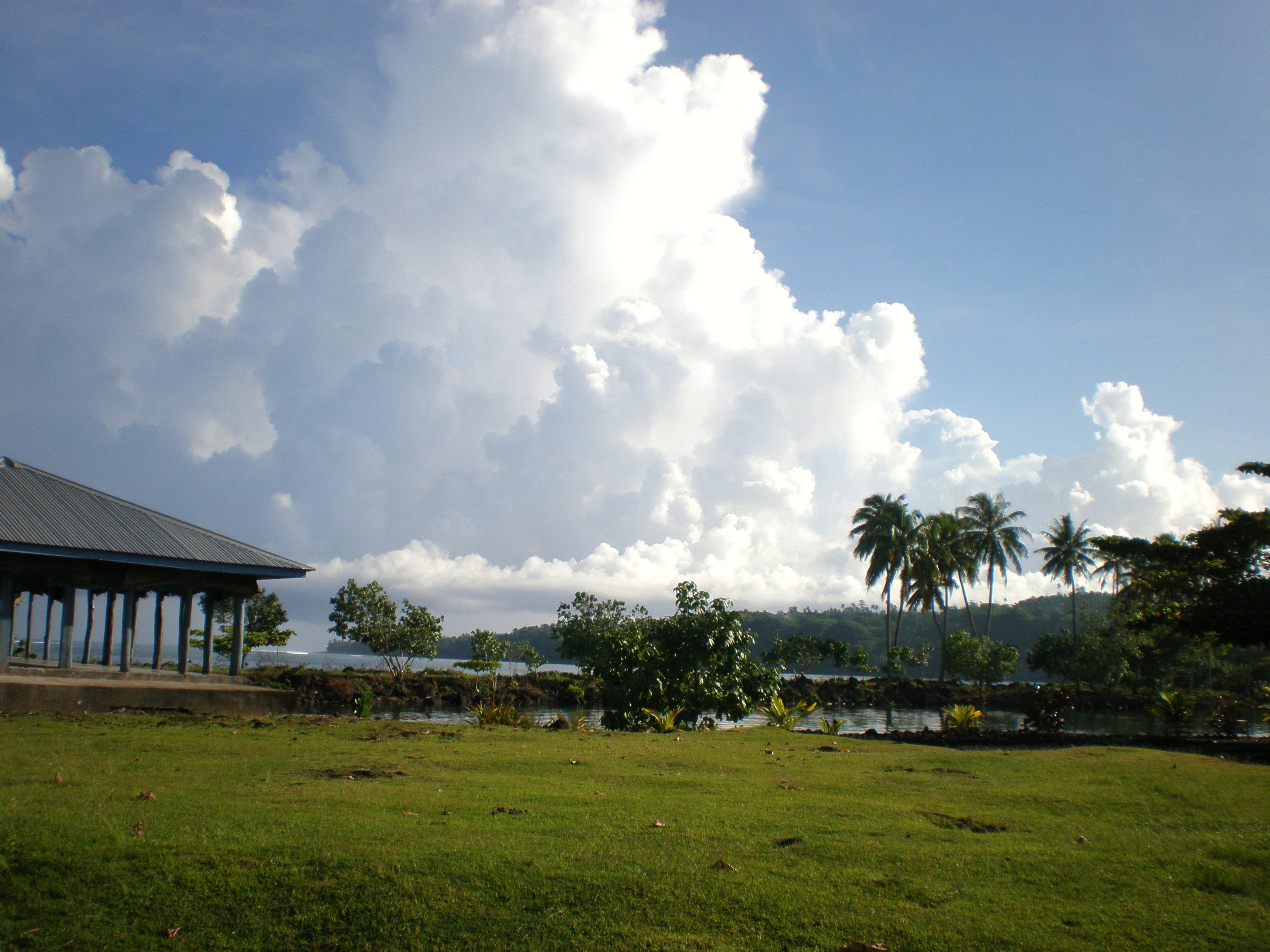 Savai'i village scenery towards coastline from Faletagaloa & Matavai villages in Safune district, Samoa, Polynesia, Oceania